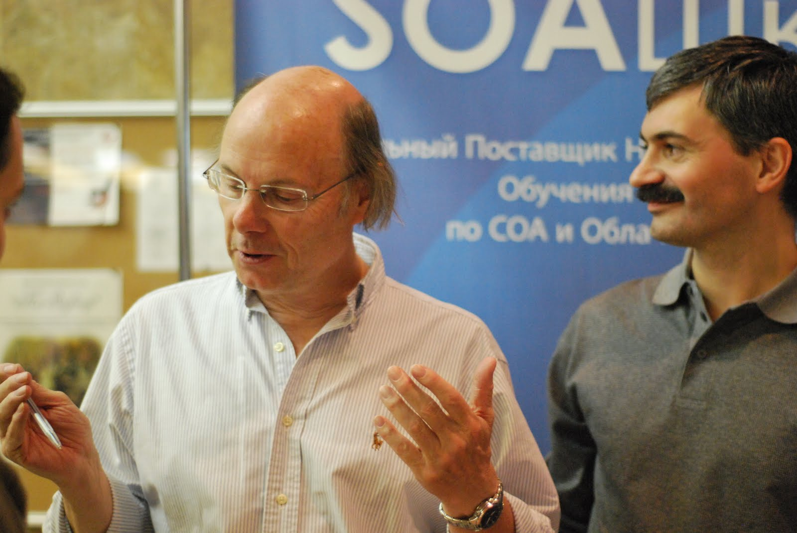 Bjarne Stroustrup with the Russian publisher of his book at the CEE-SECR 2010 conference in Moscow. Photo is taken by Julia Kryuchkova